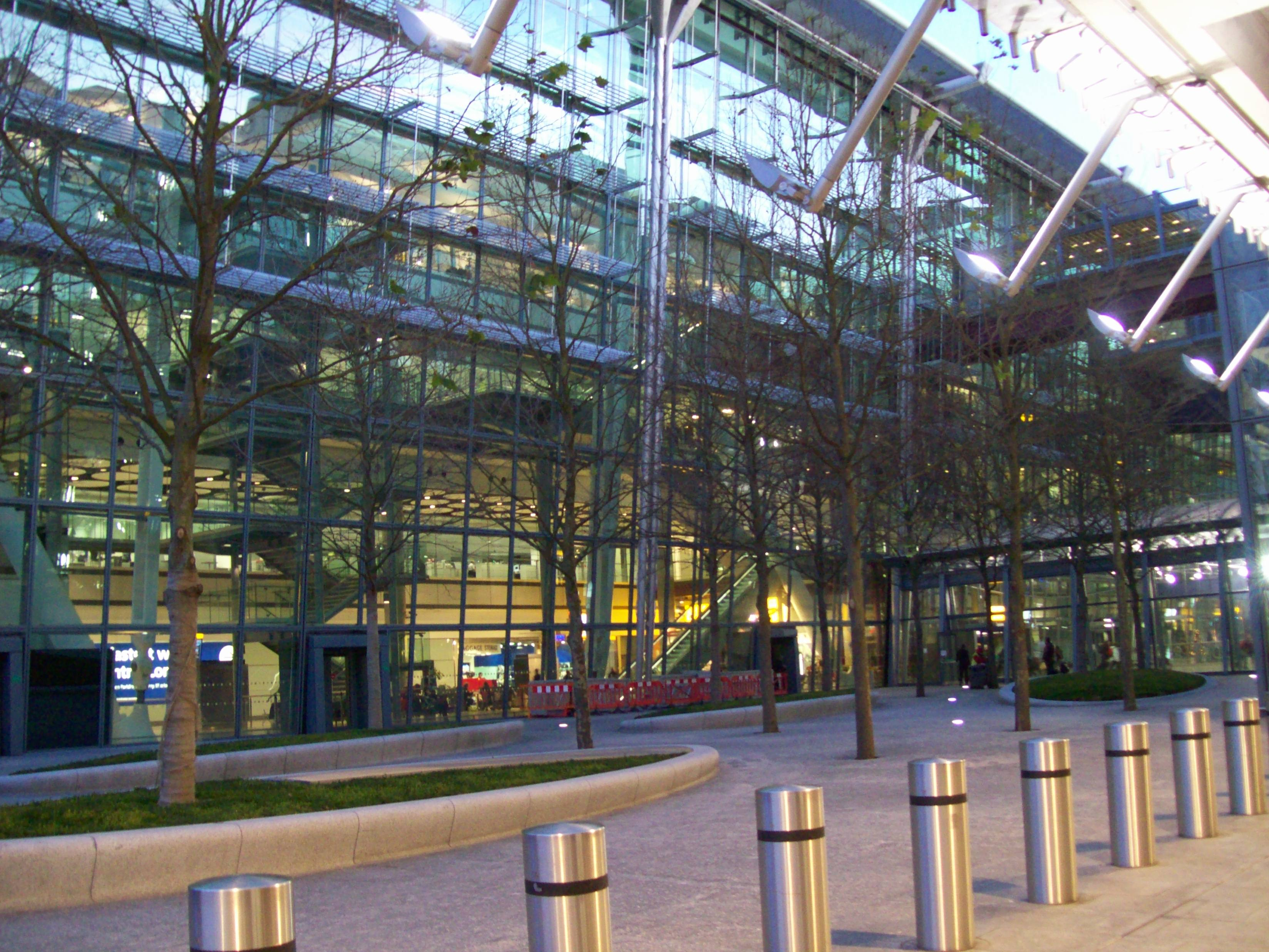 Interchange Plaza at Heathrow's Terminal 5